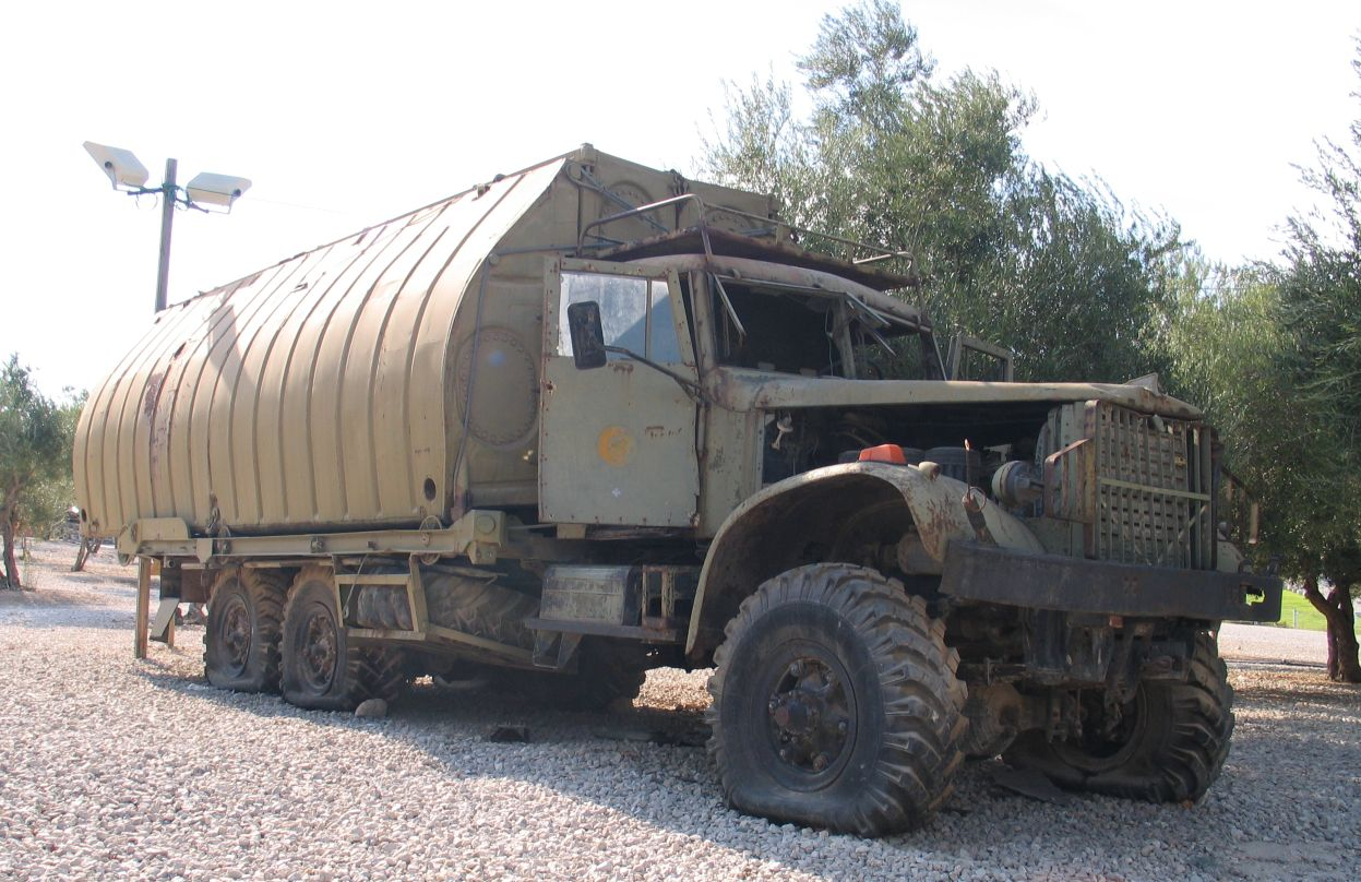 Description: Soviet PMP pontoon bridge on KrAZ truck (apparently KrAZ-214) in Yad la-Shiryon Museum, Latrun, Israel. 2005. Source: Photo by me, User:Bukvoed